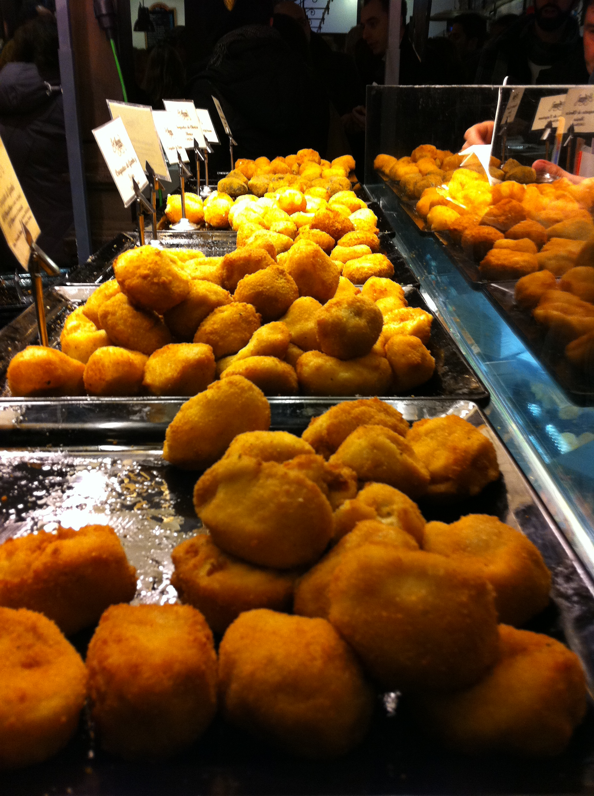 Spanish croquetas, Madrid, Spain